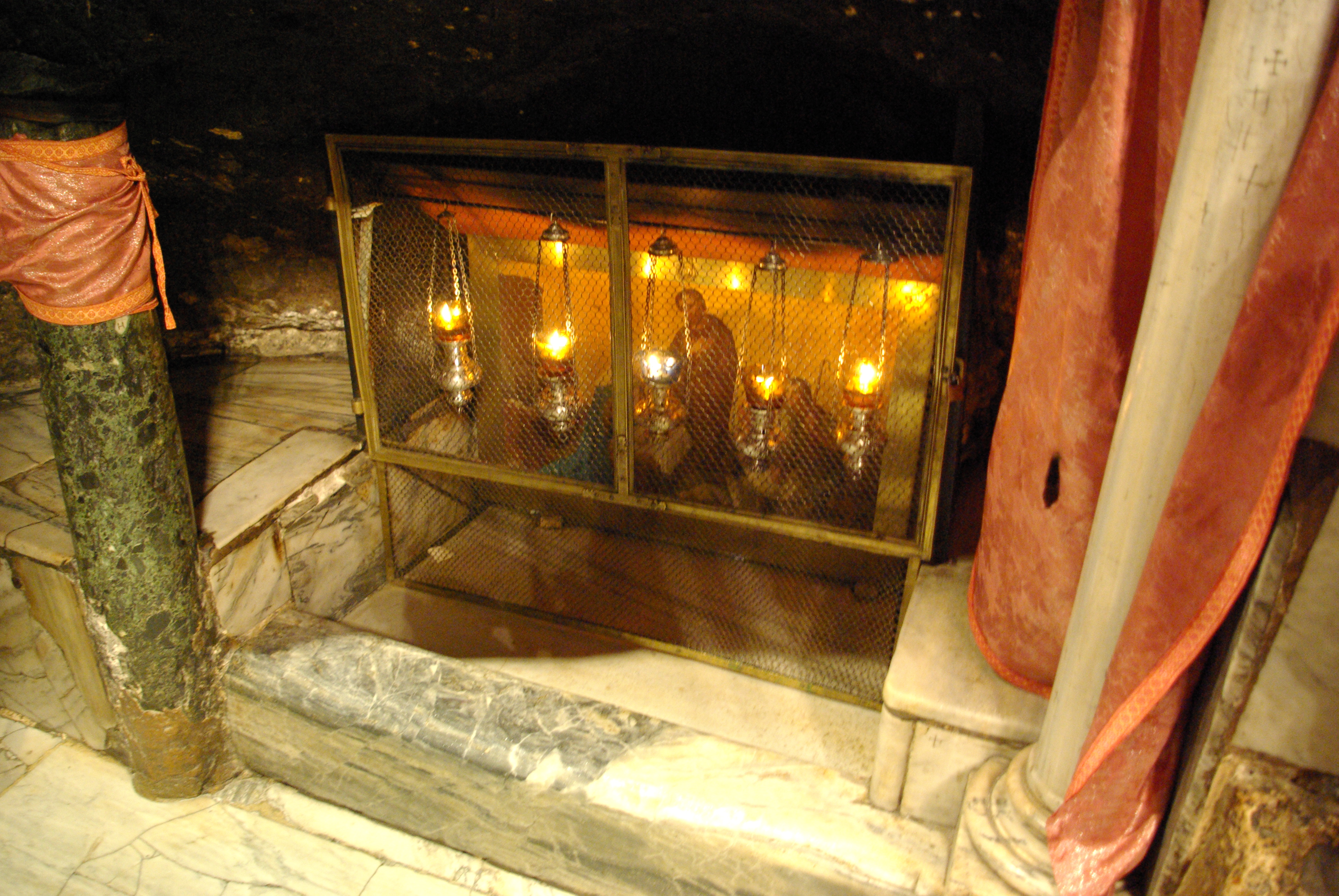 Bethlehem, Church of the nativity